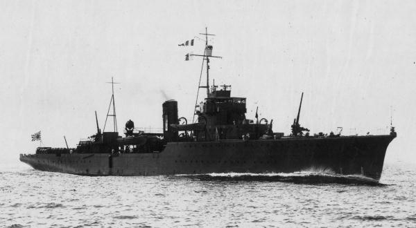 Japanese minelayer "Yaeyama" off Iwakura in trial run.